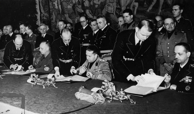 The signing of the Tripartite Pact by István Csáky (far right), the Minister of Foreign Affairs of Hungary in Vienna. From right: Istvan Csáky, Galeazzo Ciano, Joachim von Ribbentrop and Saburō Kurusu.